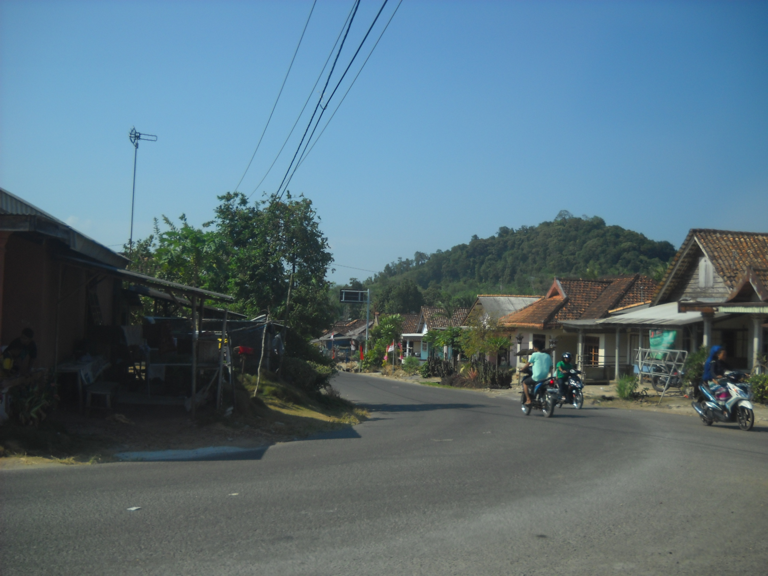 Sempan Village in Bangka County, Bangka Island